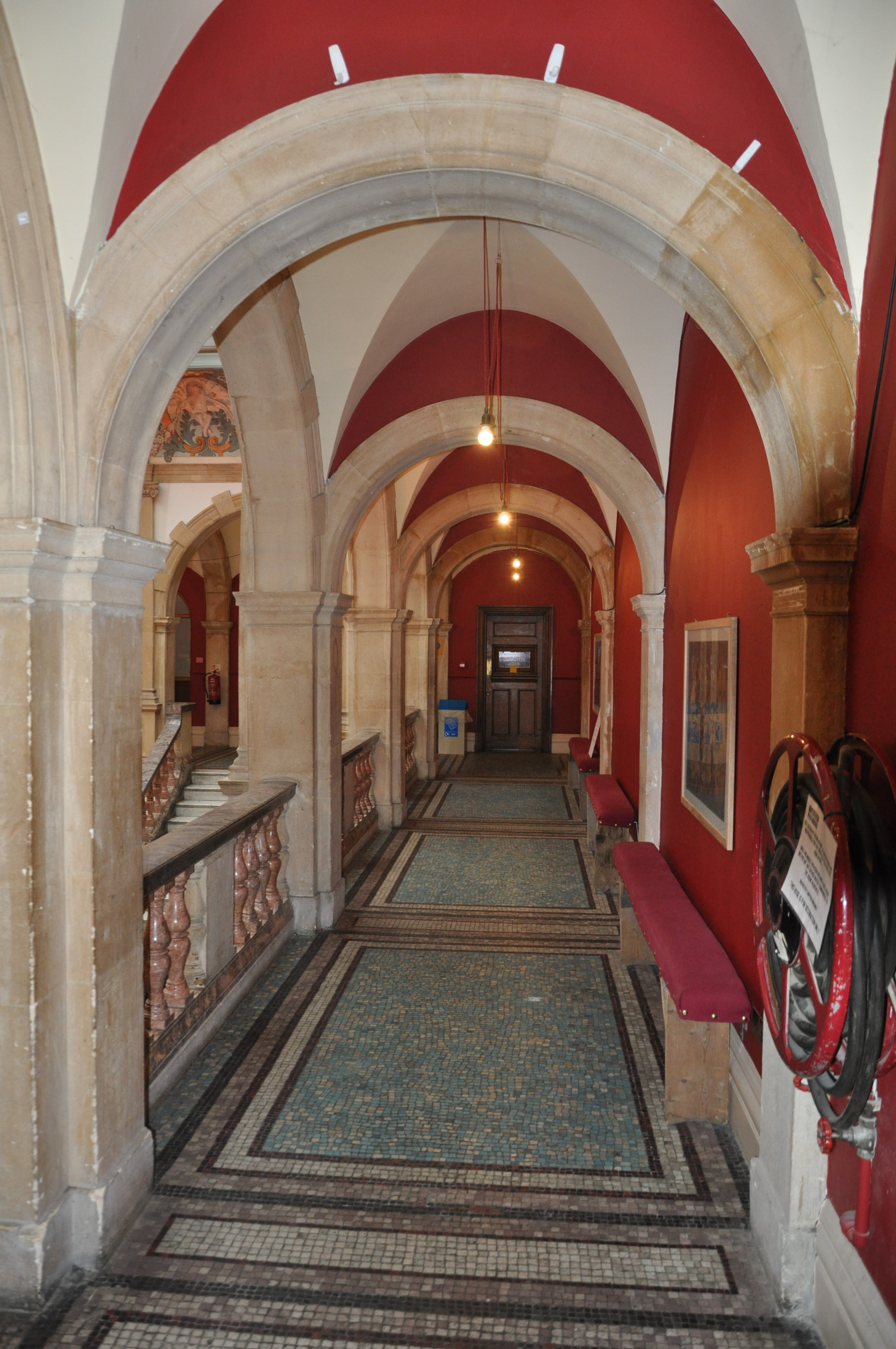 first floor corridor in Battersea Town Hall